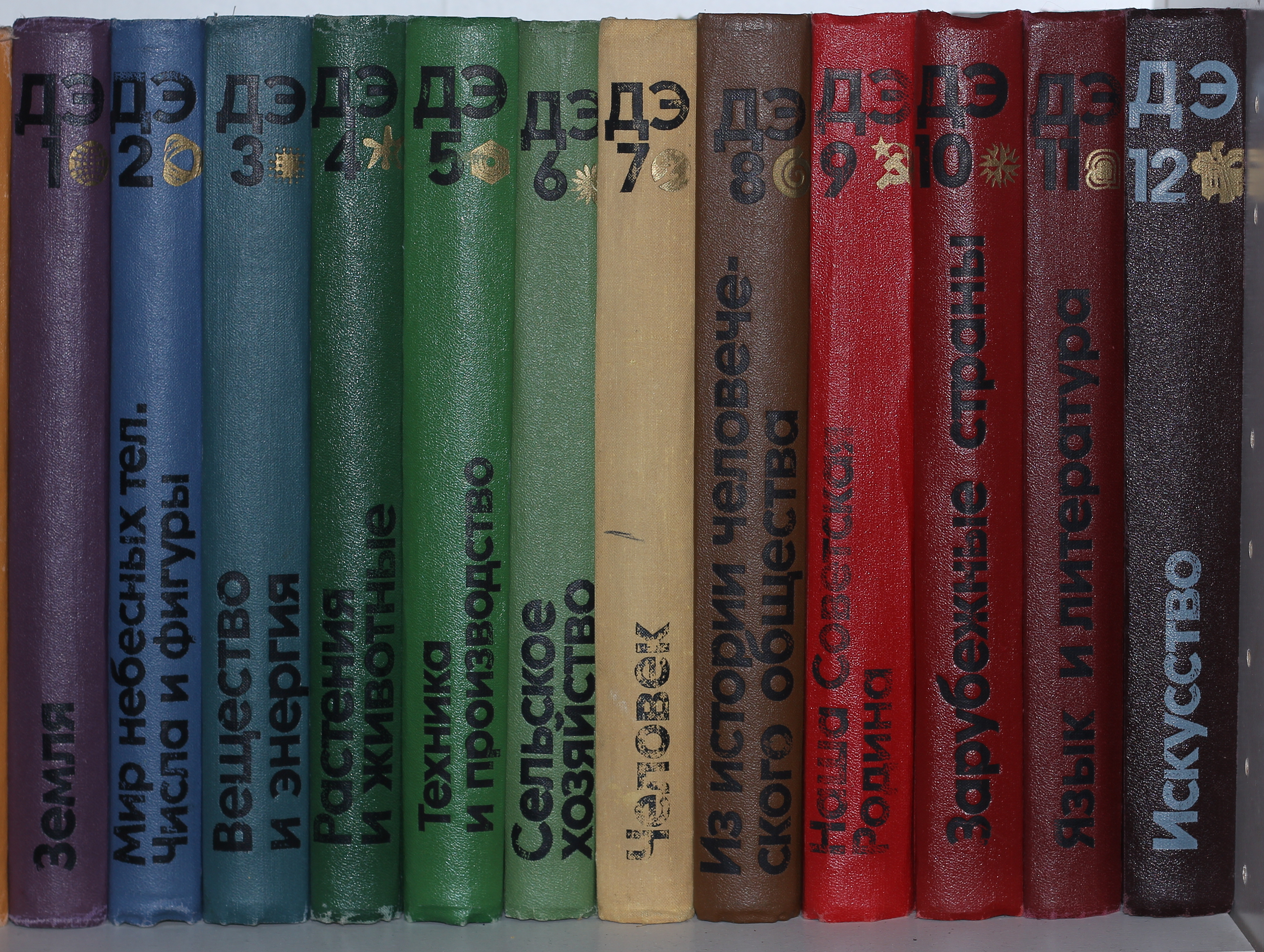 Children's Encyclopedia 1974 year. Encyclopedias of the Soviet Union